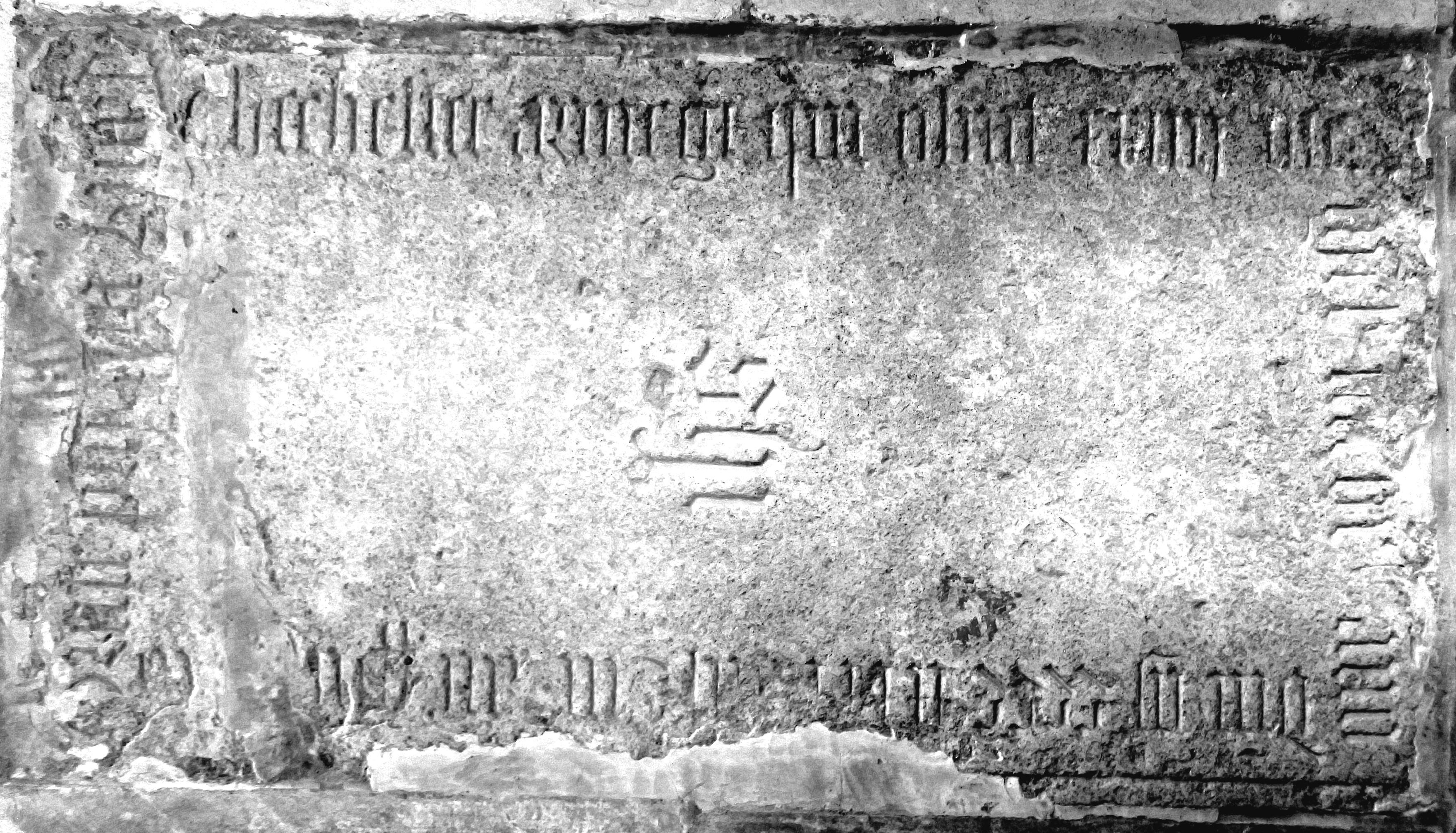 Ledger stone of Richard Chichester (d.1496), of Raleigh, floor of chancel aisle, Pilton Church, Devon. Sheriff of Devon 1469 & 1475 (Vivian, Heralds' Visitations of Devon, p.172). Text: Orate p(ro) anima Ricardi Chichester Armig(er)i qui obiit XXIIII die Octobri an(n)o D(o)m(ini) M(illensim)o CCCCLXXXXVIII (or CCCCLXXXXVI) cuius ani(mae) p(ros)picietur D(eus). ("Pray for the soul of Richard Chichester, Esquire, who died on the 24th day of October (Month much worn, December, per Vivian, Heralds' Visitations of Devon, p.172) in the year of Our Lord the one thousandth four hundredth and ninety eighth (sixth?) of whose soul may God look on with favour"). In the centre the letters "IHS" (J(E)H(ESU)S). It is of the same stone and in the same style with identical lettering to the slab of John Courtenay (d.1510) in Molland Church, Devon. John I Courtenay (1466–27 March 1510), lord of the manor of Molland, married Joan Brett, the sister of Robert Brett (died 1540), lord of the manor of Pilland in the parish of Pilton and the last steward of Pilton Priory who in 1536 following its dissolution purchased the Prior's House (now called "Bull House") next to Pilton Church. Joan married secondly (after 1510), as his second wife, Sir John Chichester (died 1537) of Raleigh (grandson of Richard Chichester (d.1496)) in the parish of Pilton, and from her were descended the cadet branch of the Chichester family of Arlington. The Brett family was from Whitestaunton in Somerset and had married the heiress of Pilland late in the 15th. century. The Brett family is today represented by Viscount Esher.